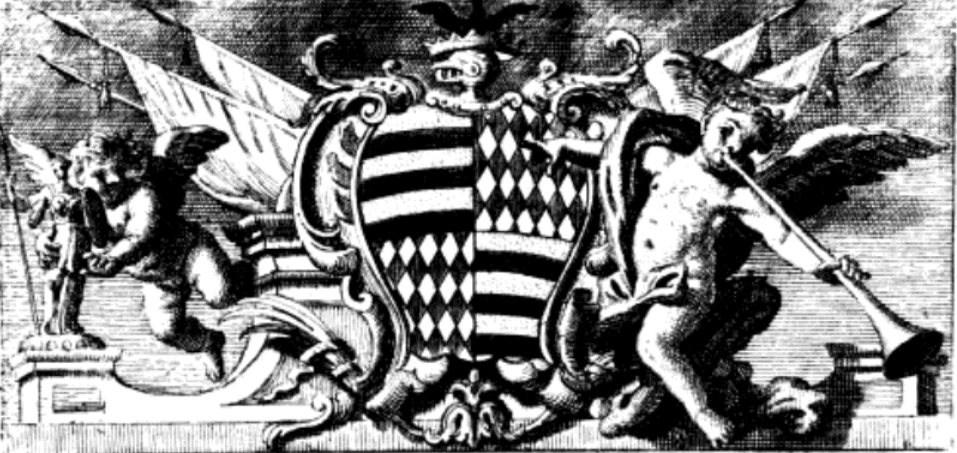 Coat of arms of the Ceva Grimaldi family whose members include Francesco Ceva Grimaldi (1806–1864), Francesco Ceva Grimaldi (1831–1899), and Giuseppe Ceva Grimaldi (1777–1862).